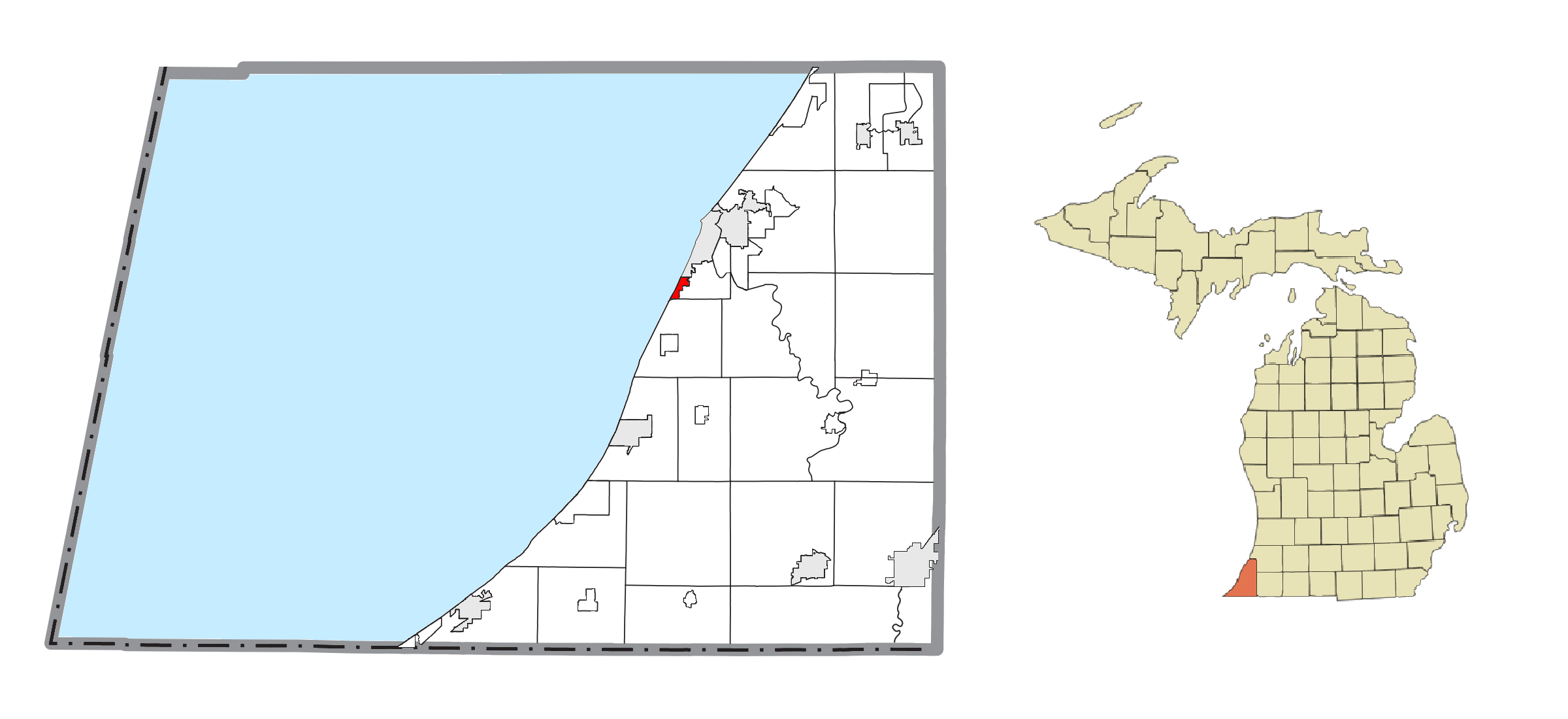 Shoreham, MI